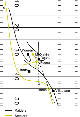 This is a diagram of the football play known as the Immaculate Reception, created using Inkscape.